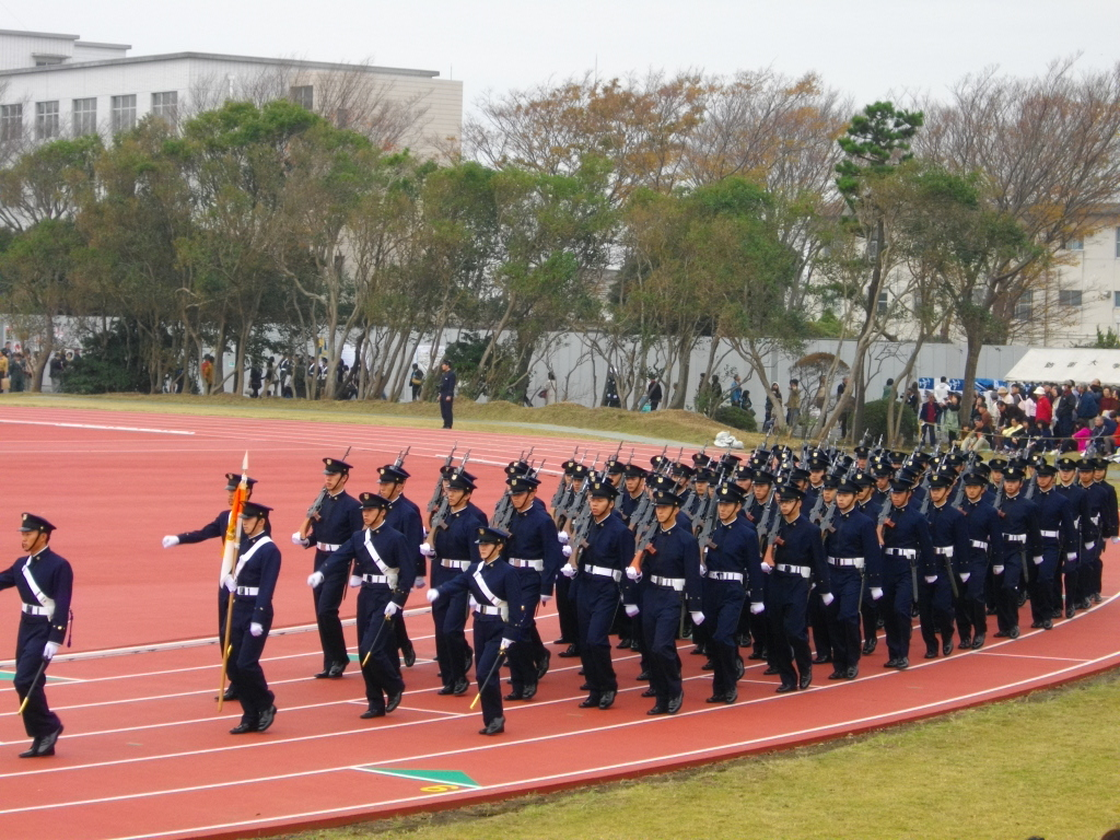 NDAJ(National Defense Academy of Japan) cadets parade